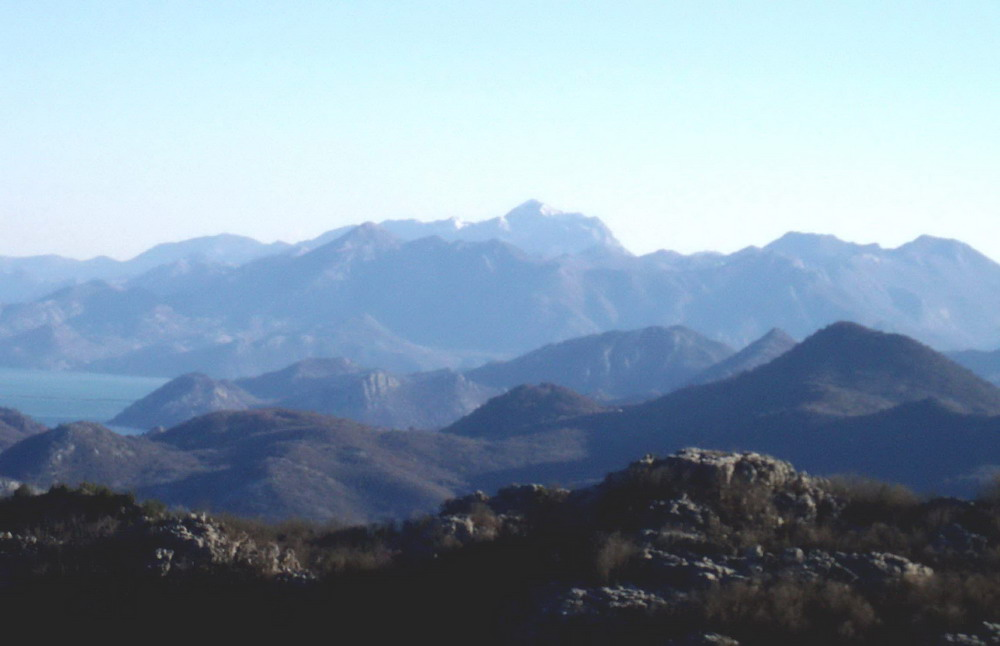 The Skadar Lake and the Rumija Moutain